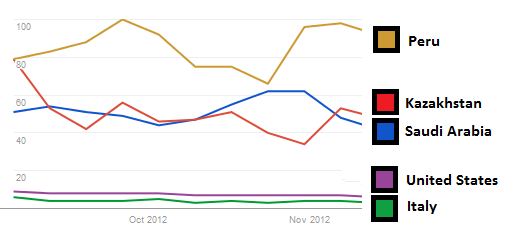 Search interest for K-pop boyband Super Junior from September 2012 to December 2012, according to Google Trends. (Original Source)